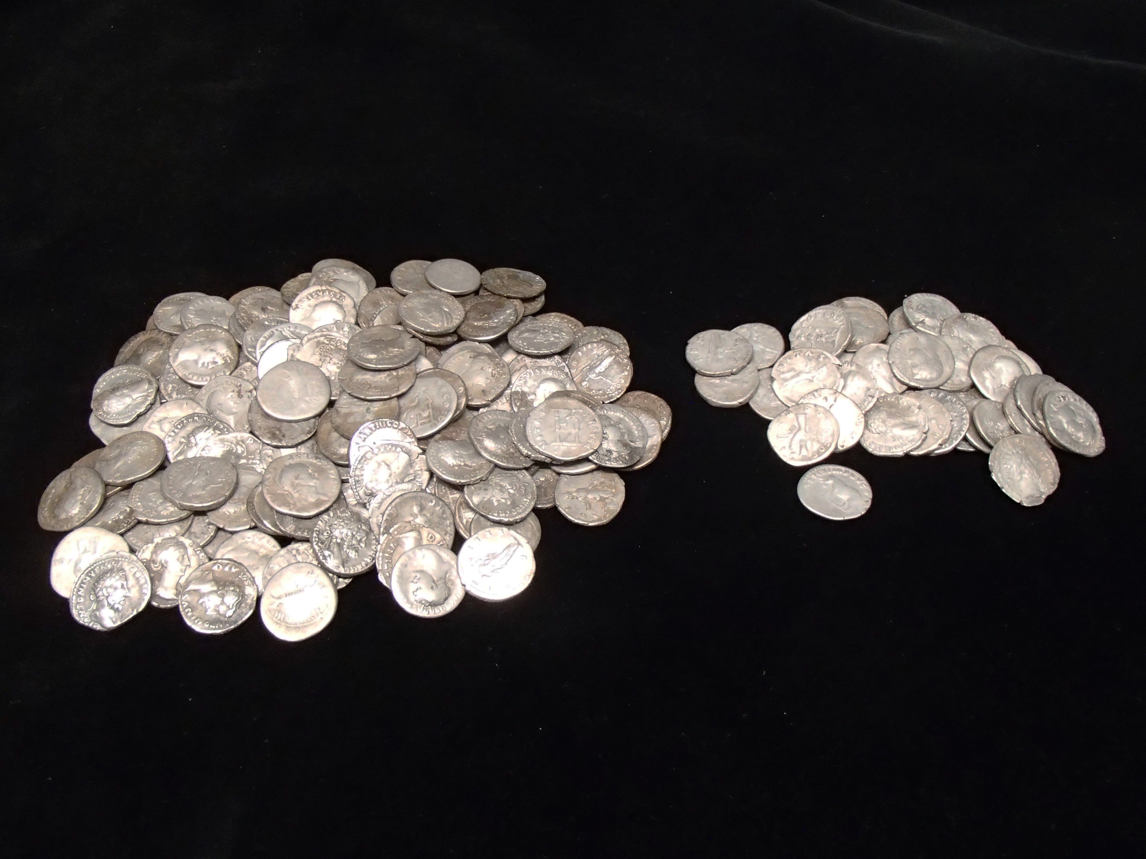 Westbury-sub-Mendip hoard Contents: 189 silver denarii: Antony 32-31 BC, 10; Nero AD 54-68, 2; Galba AD 68-9, 1; Otho AD 69, 1; Vitellius AD 69, 2; Vespasian AD 69-79, 18; Titus Caesar, 3; Domitian Caesar, 1; Titus AD 79-81, 4; Domitian Caesar, 2; Domitian AD 81-96, 8; Nerva AD 96-8, 2; Trajan AD 98-117, 27; Hadrian AD 117-38, 32; Aelius, 1; Antoninus Pius AD 138-61, 29; Diva Faustina I, 13; Marcus Caesar, 4; Faustina II, 1; Marcus Aurelius AD 161-80, 9; Lucius Verus, 1; Divus Pius, 1; Faustina II, 6; Lucilla, 3; Diva Faustina II, 1; Commodus AD 180-92, 2; Crispina, 2; Pertinax AD 193, 1; Septimius Severus (Wars of the Succession, AD 193-7), 2